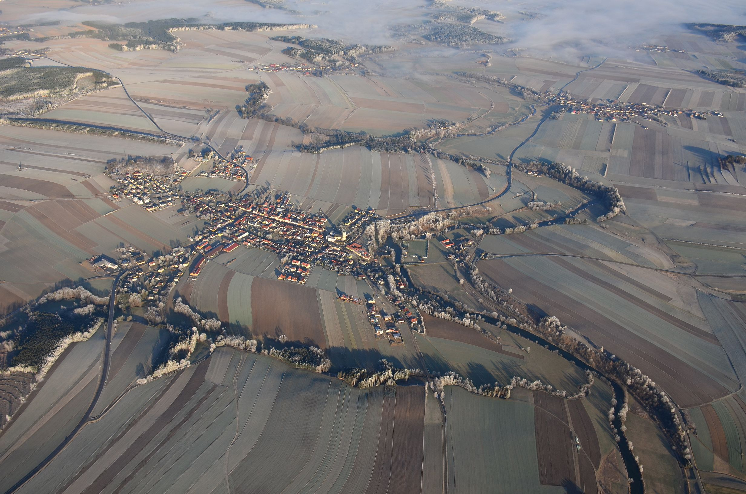 Aerial photograph of Thaya from south-east